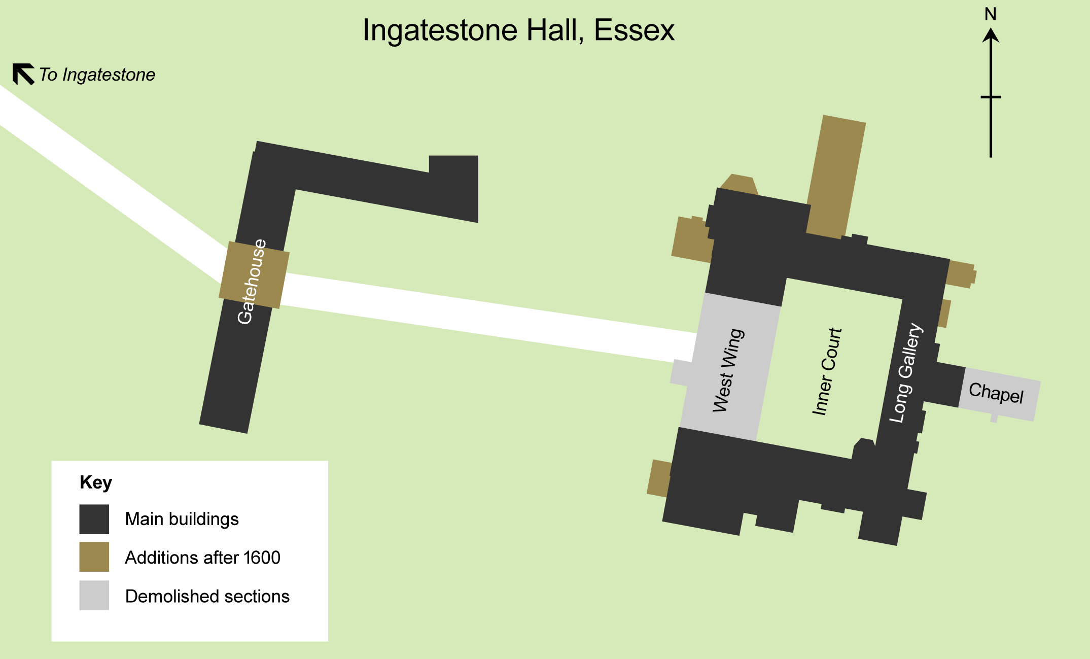 Site plan of the main buildings of Ingatestone Hall, Essex, in the United Kingdom, built 1539-1556, with later additions. The west wing and private family chapel have been demolished. Sourced from Ingatestone Hall